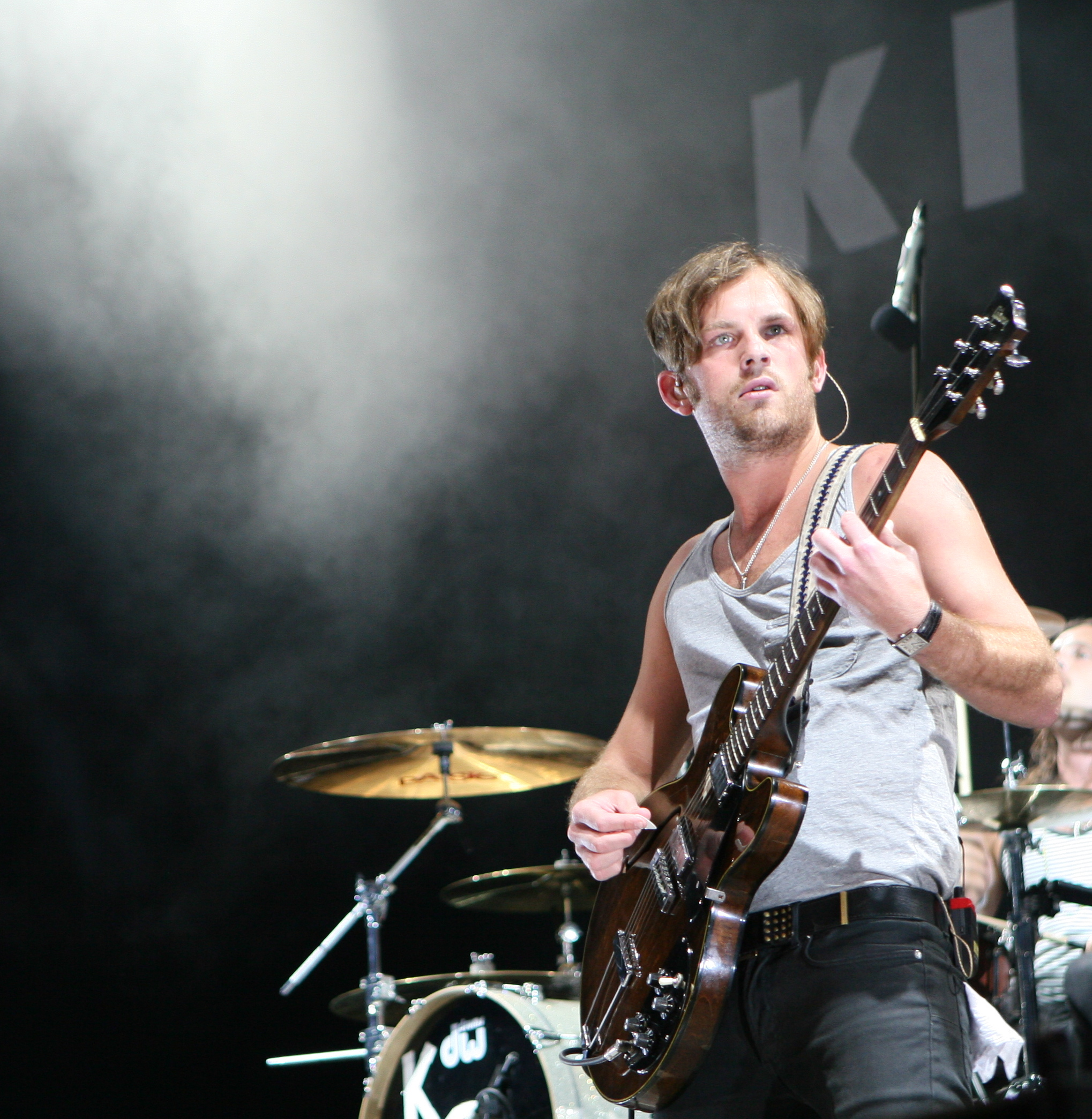 Caleb Followill - Kings of Leon